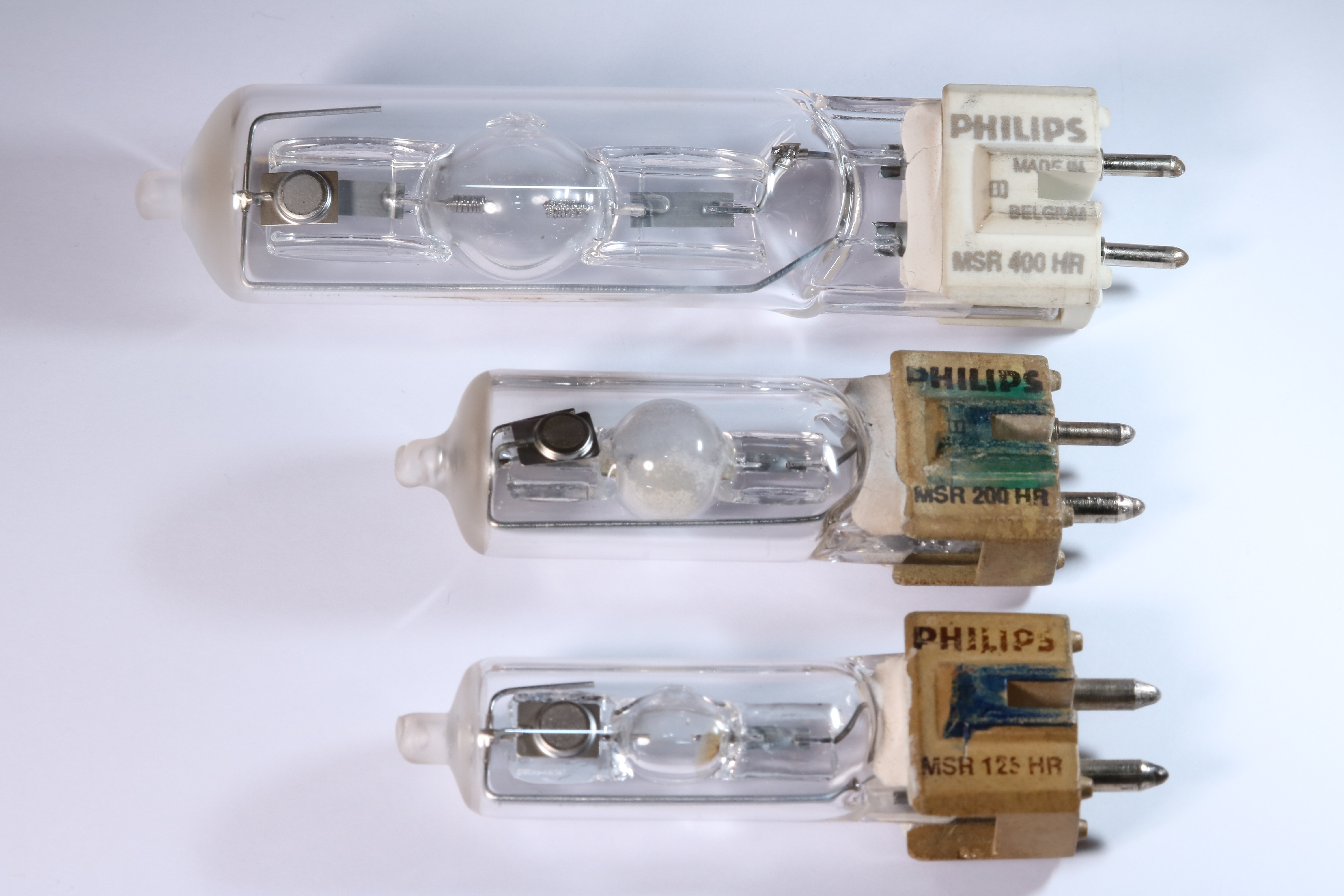 HMI lamps (Hydrargyrum medium-arc iodide lamps), Philps MSR, downside to upside : 125 W, 200 W and 400 W, single-ended.